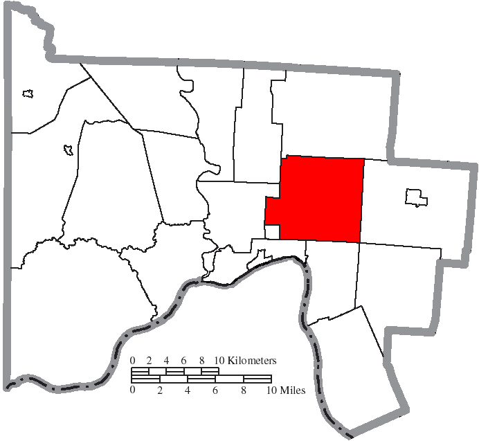 Map of the municipal and township boundaries of Scioto County, Ohio, United States, as of the 2000 census, with the location of Harrison Township highlighted. Township borders are shown only in unincorporated areas in order to differentiate incorporated and unincorporated areas more clearly.